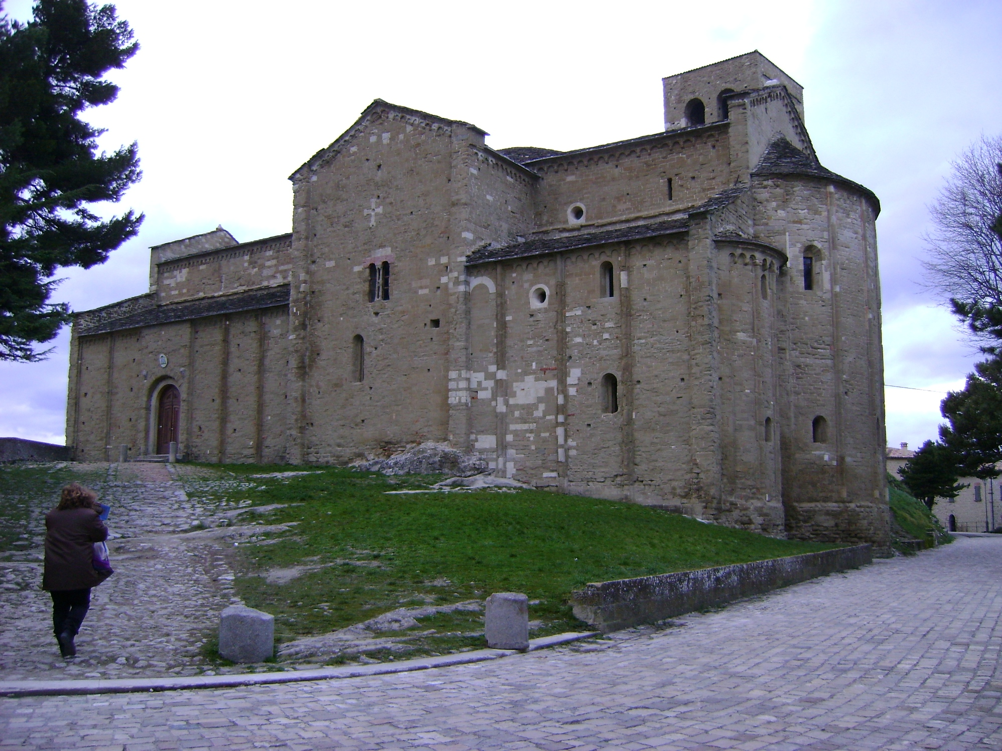 The Cathedral of St. Leone, in San Leo, province of Rimini, Emilia-Romagna